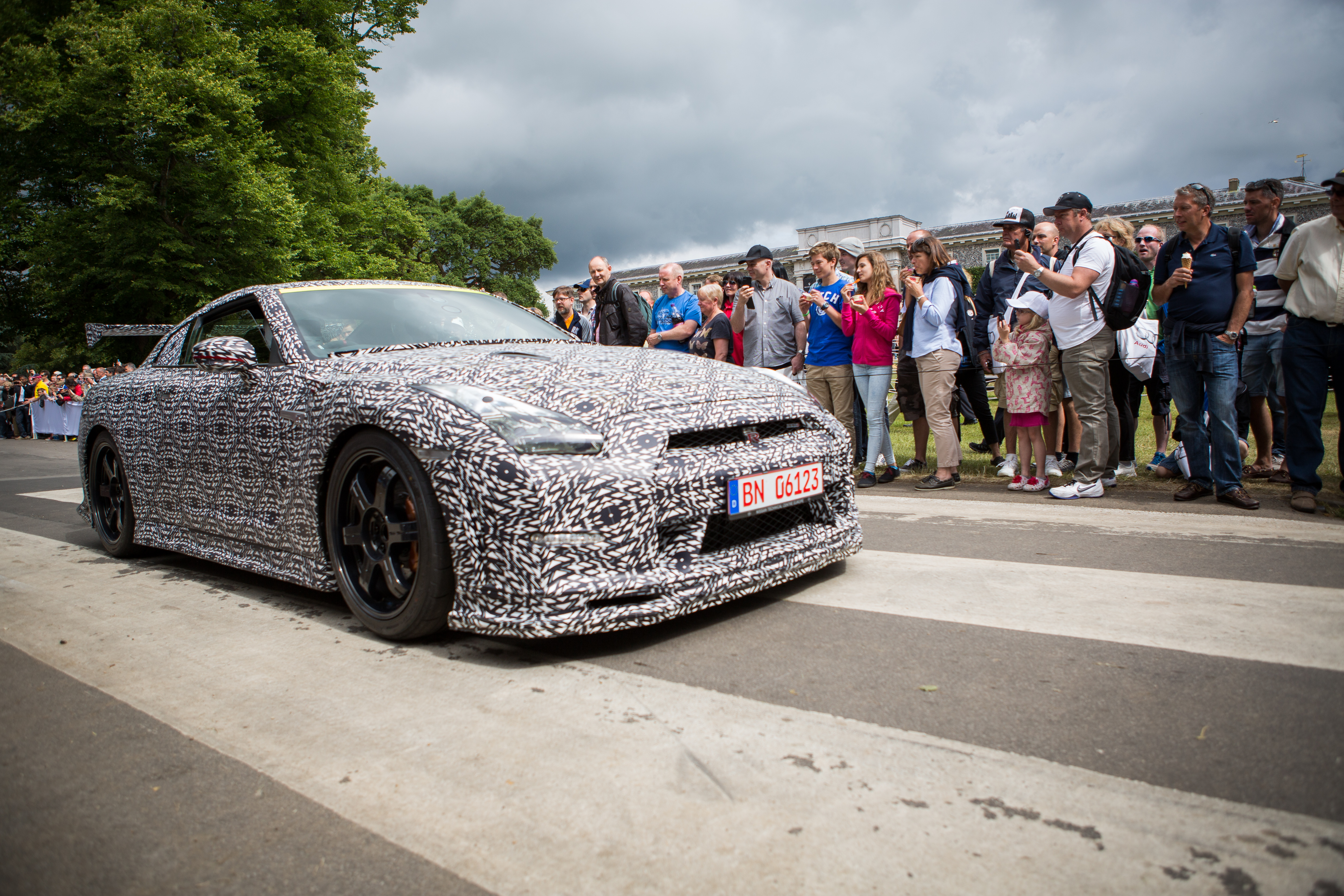 The Nissan GT-R Nismo 'Time Attack' edition, driven by Jann Mardenborough at the 2014 Goodwood Festival of Speed.